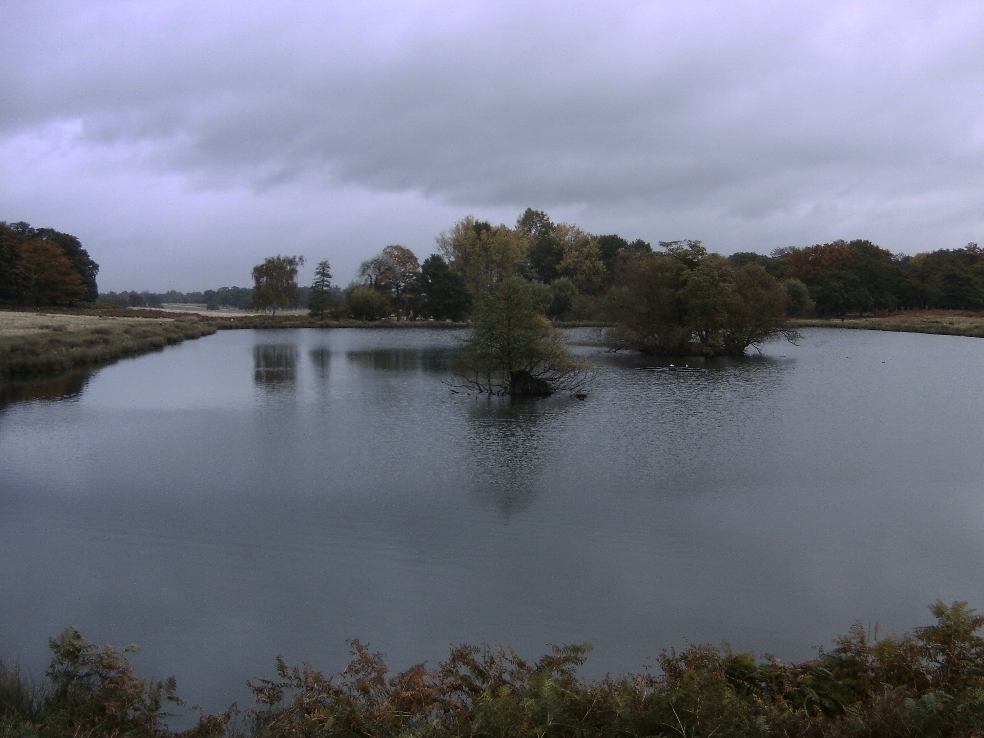 Richmond Park